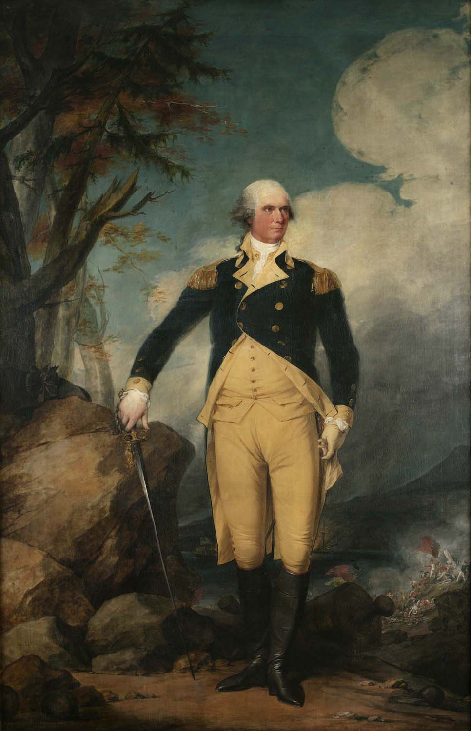 Full-length portrait of George Clinton by John Trumbull painted in 1791 for New York City.